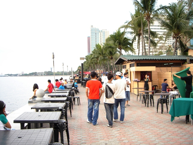 Manila Bay, one of the famous spot for strolling through in Manila. Taken by (WT-shared) Shoestring in Feb. 11, '06 マニラ湾。散歩の名所として有名。 Location: Manila